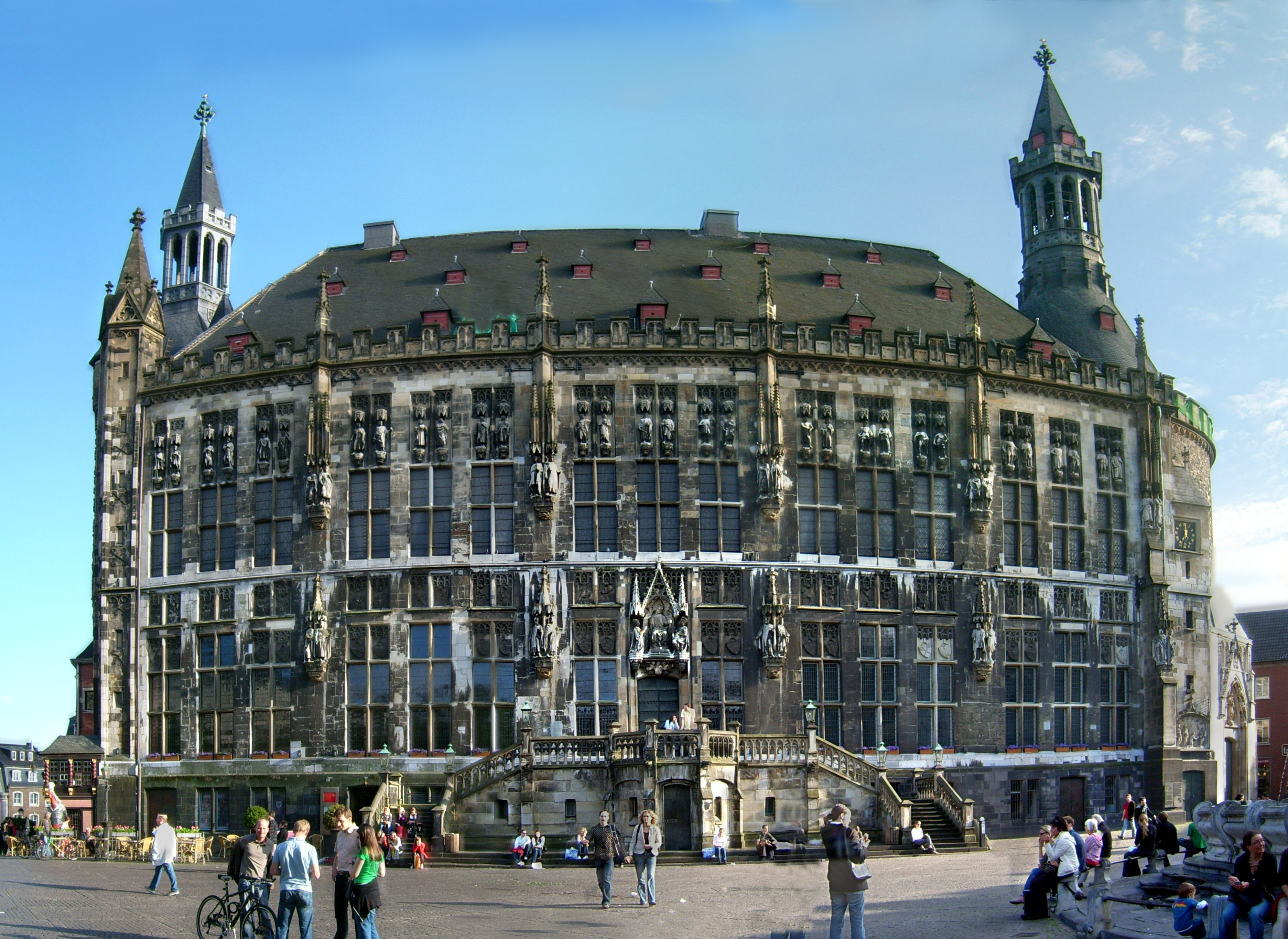 Rathaus, city hall